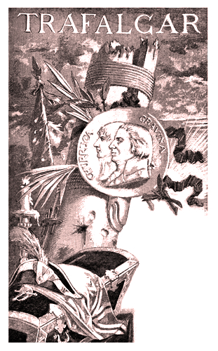 Episodios Nacionales, Ed. 1882